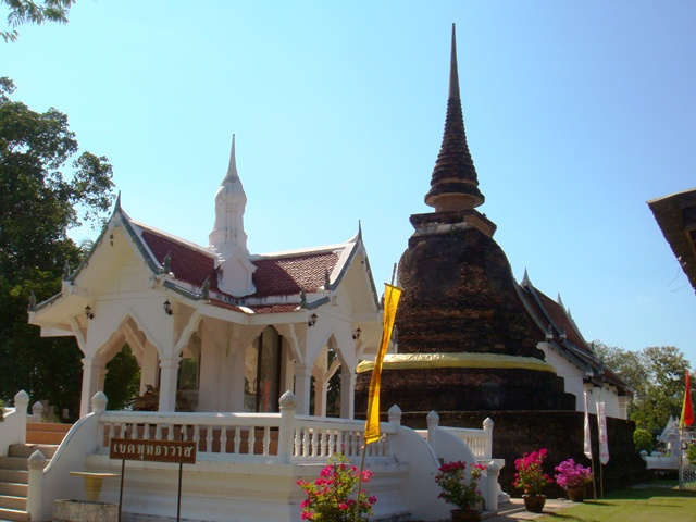 Wat Tra Phang Thong Taken by myself in December, 2010 Location: Sukhothai